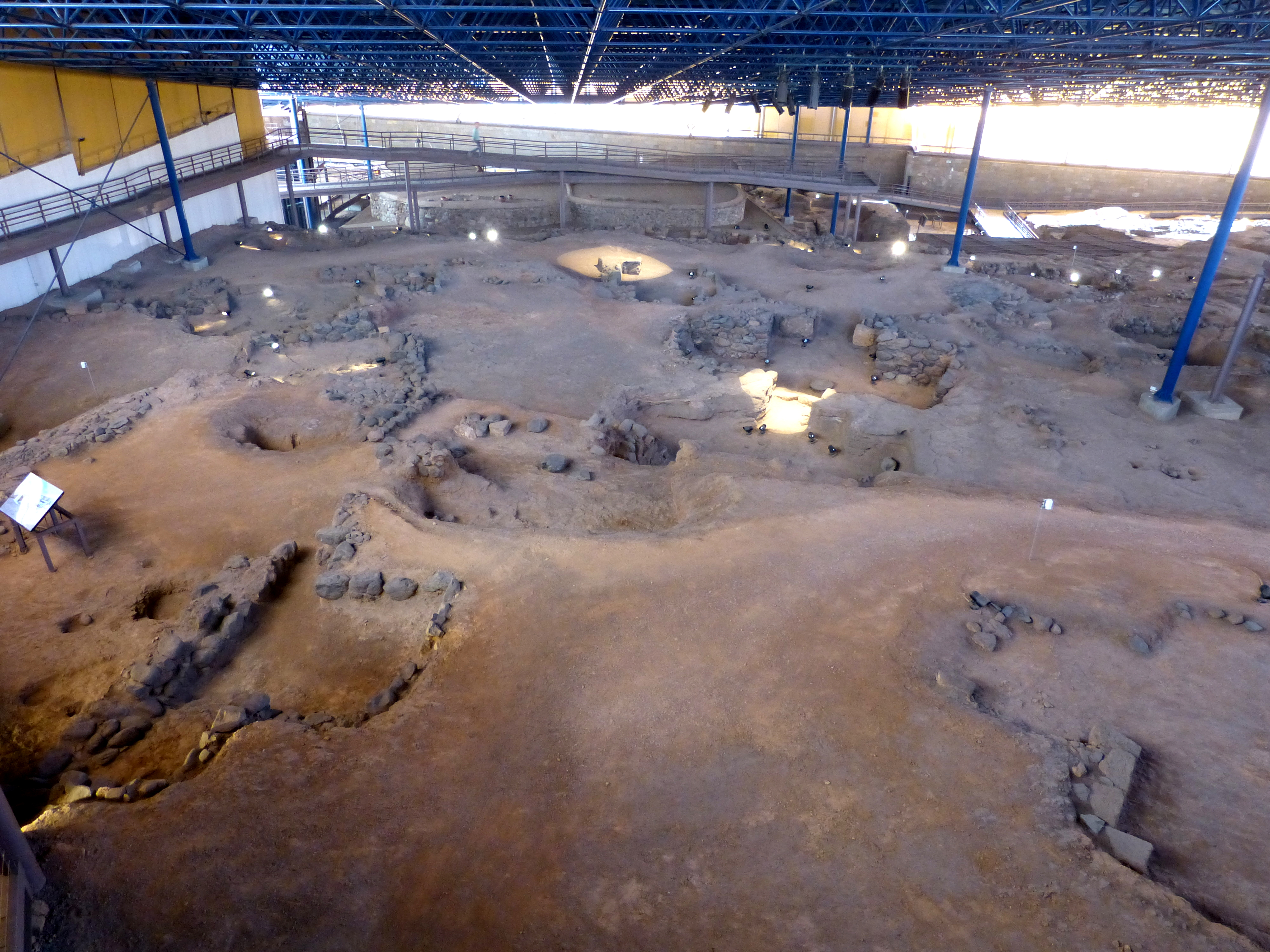 Gáldar ( Gran Canaria ). Museum "Cueva pintada" - Excavations.